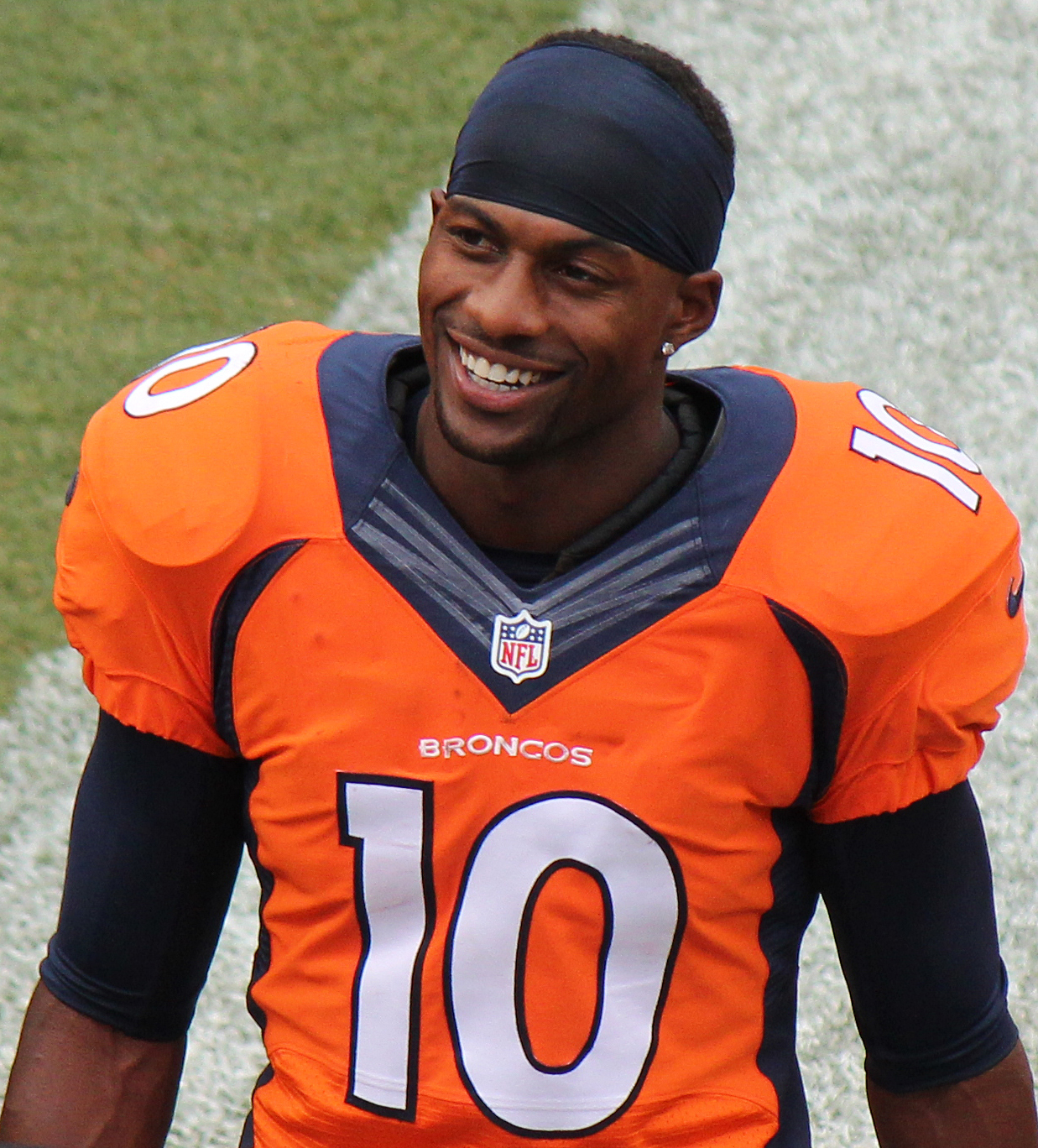 Emmanuel Sanders, a player on the National Football League.